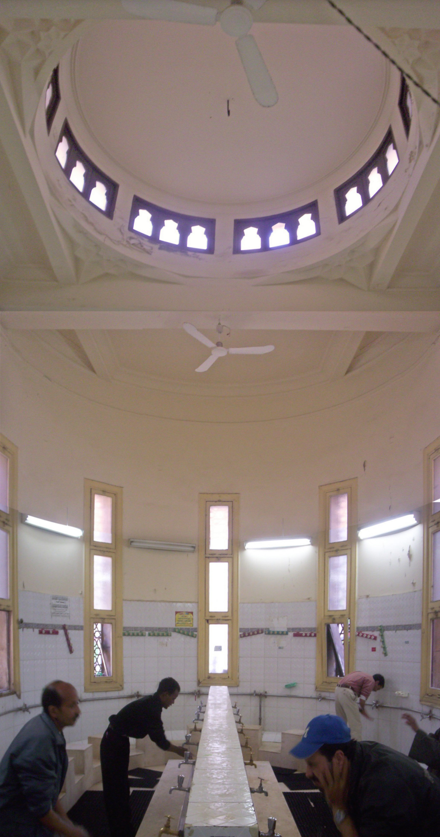 Qaed Ibrahim Mosque - the Wodo'a (ritual ablution) room with Şadirvans.